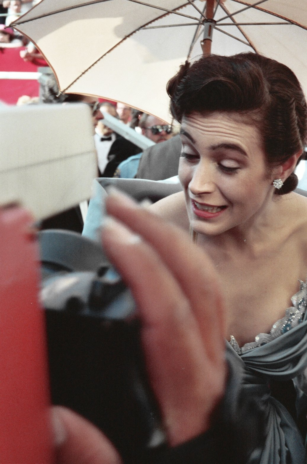 1988 Academy Awards NOTE: Permission granted to copy, publish, broadcast or post any of my photos, but please credit "photo by Alan Light" if you can. Thanks. Scanned from the original 35MM film negative.